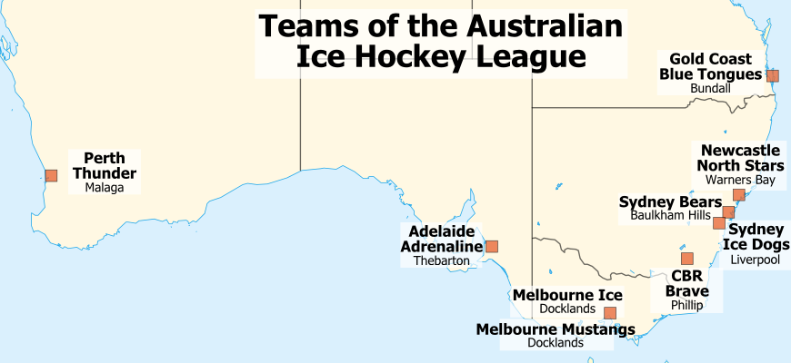 A map of SE Australia, showing the locations of teams in the Australian Ice Hockey League.